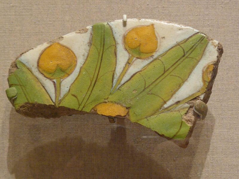 Floral Inlay, ca. 1352-1336 B.C.E. Faience. Brooklyn Museum, Charles Edwin Wilbour Fund, 49.8.